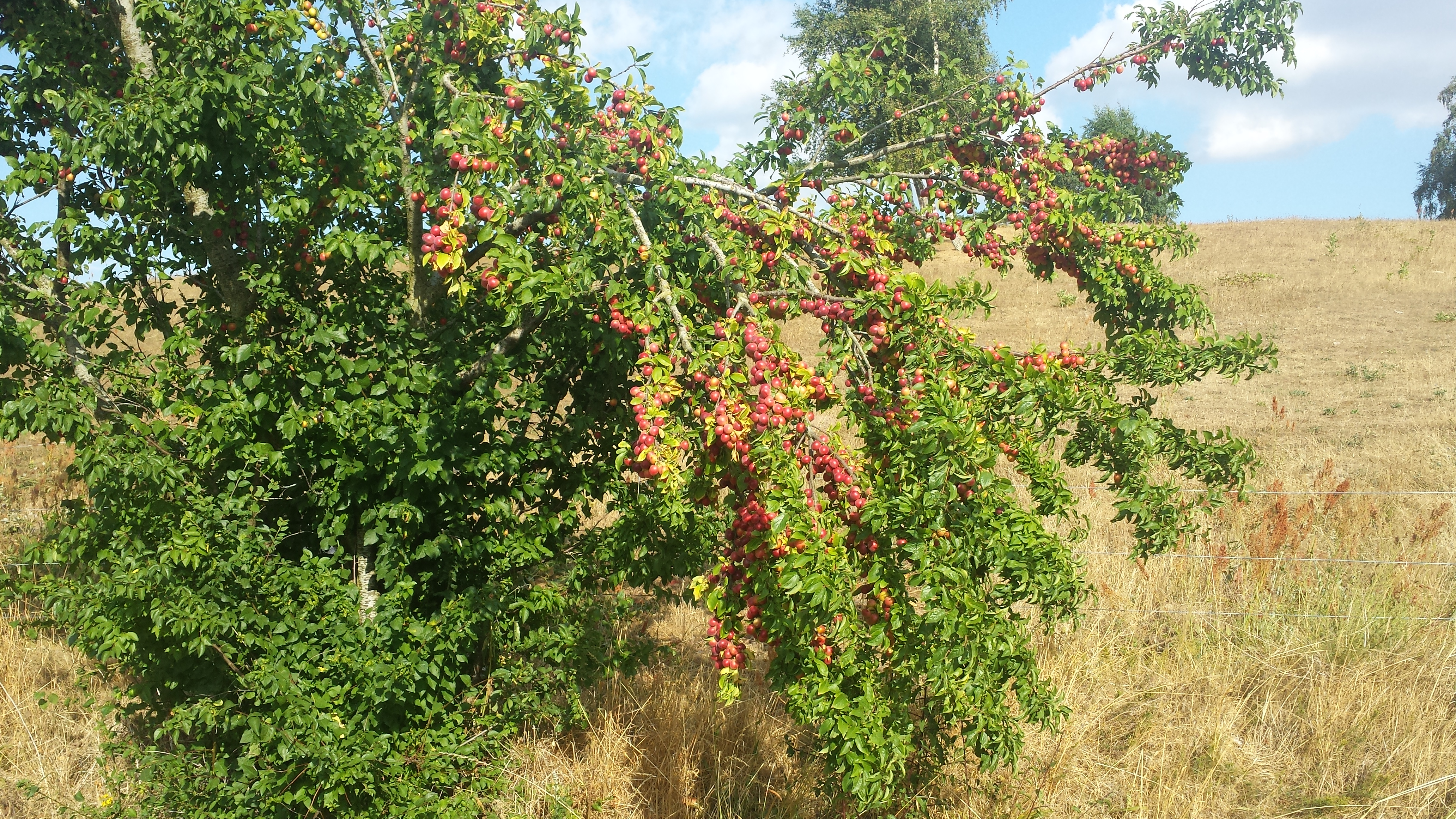 The Danish weather in 2018 has been perfect for fruit tree productivity.